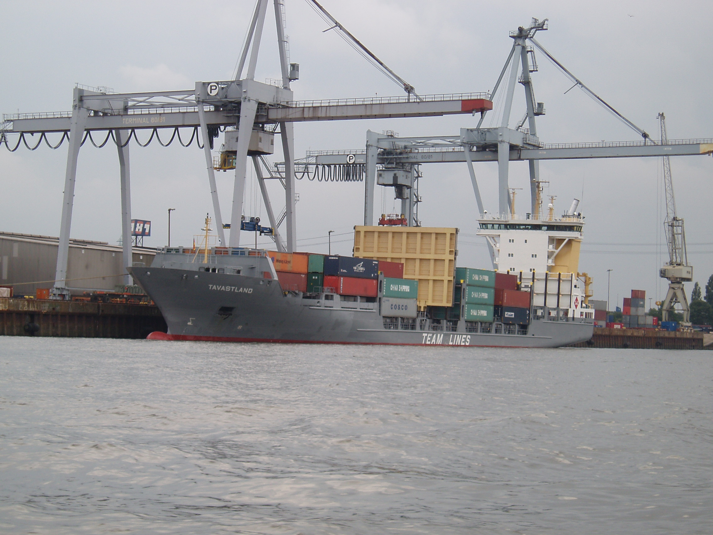 Port of Hamburg with the TAVASTLAND IMO Number: 9277412